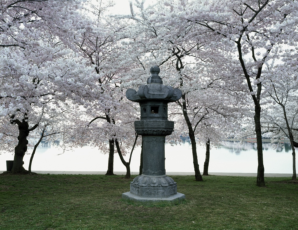 Title: The Japanese Lantern is a stone statue in West Potomac Park, Washington, D.C. Creator(s): Highsmith, Carol M., 1946-, photographer Date Created/Published: [between 1980 and 2006] Medium: 1 transparency : color ; 4 x 5 in. or smaller. Reproduction Number: LC-DIG-highsm-15631 (digital file from original) LC-HS503-4855 (color film transparency) Rights Advisory: No known restrictions on publication. Call Number: LC-HS503- 4855 (ONLINE) [P&P] Repository: Library of Congress Prints and Photographs Division Washington, D.C. 20540 USA Notes: Digital image produced by Carol M. Highsmith to represent her original film transparency; some details may differ between the film and the digital images. Located next to the Tidal Basin, among the cherry trees first planted in 1912. It is lighted during the annual National Cherry Blossom Festival. Title, date, subject note, and keywords provided by the photographer. Credit line: Photographs in the Carol M. Highsmith Archive, Library of Congress, Prints and Photographs Division. Gift and purchase; Carol M. Highsmith; 2011; (DLC/PP-2011:124). Forms part of the Selects Series in the Carol M. Highsmith Archive.